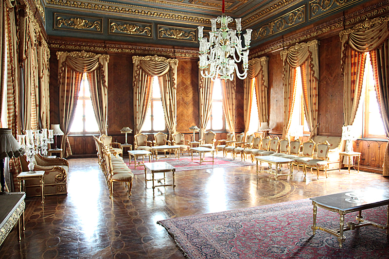 Reception room of the Summer palace of Muhammad Ali, Shubra el-Kheima, Egypt